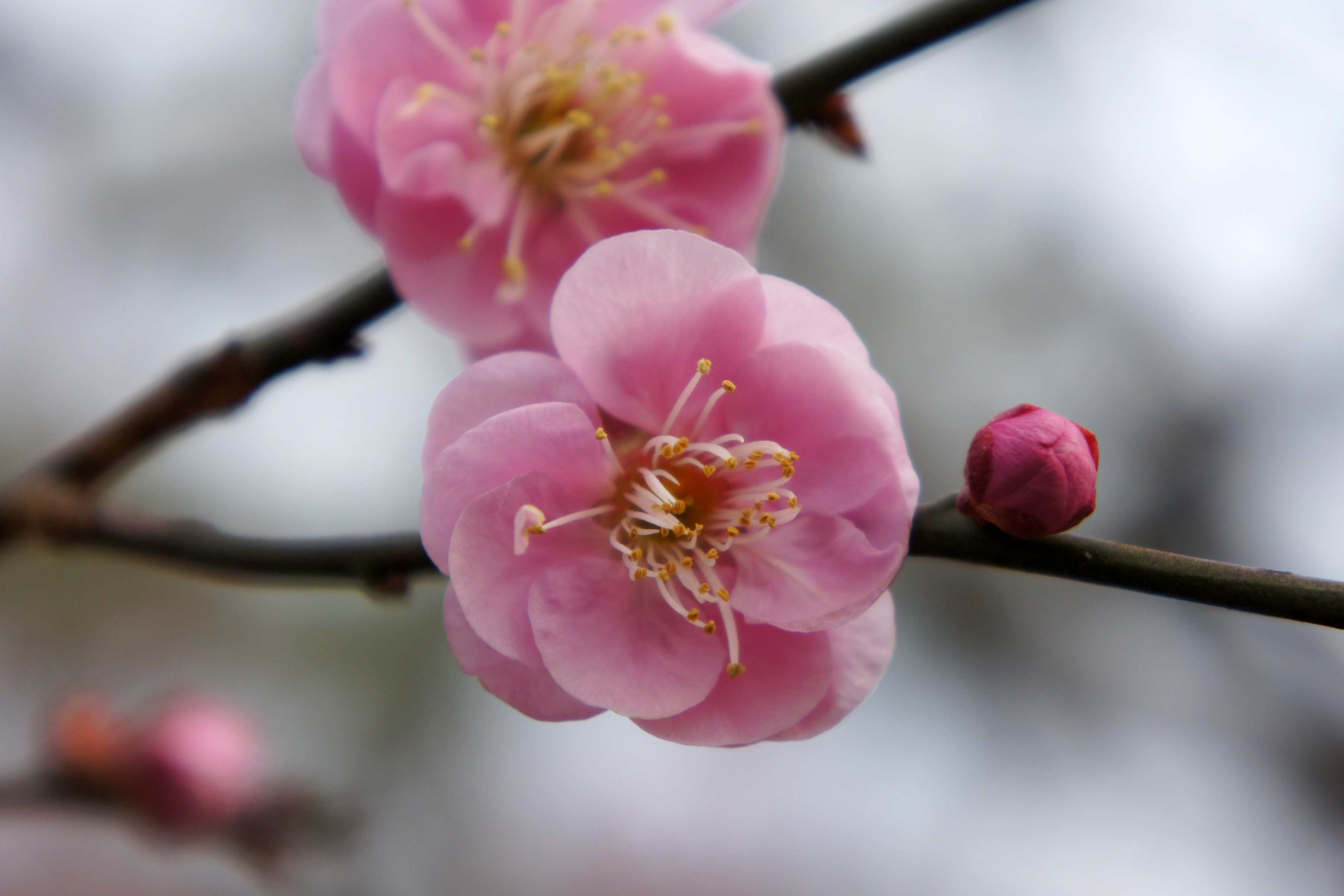 Kitano Tenman-gū in Kamigyō-ku, Kyoto, Kyoto Prefecture, Japan